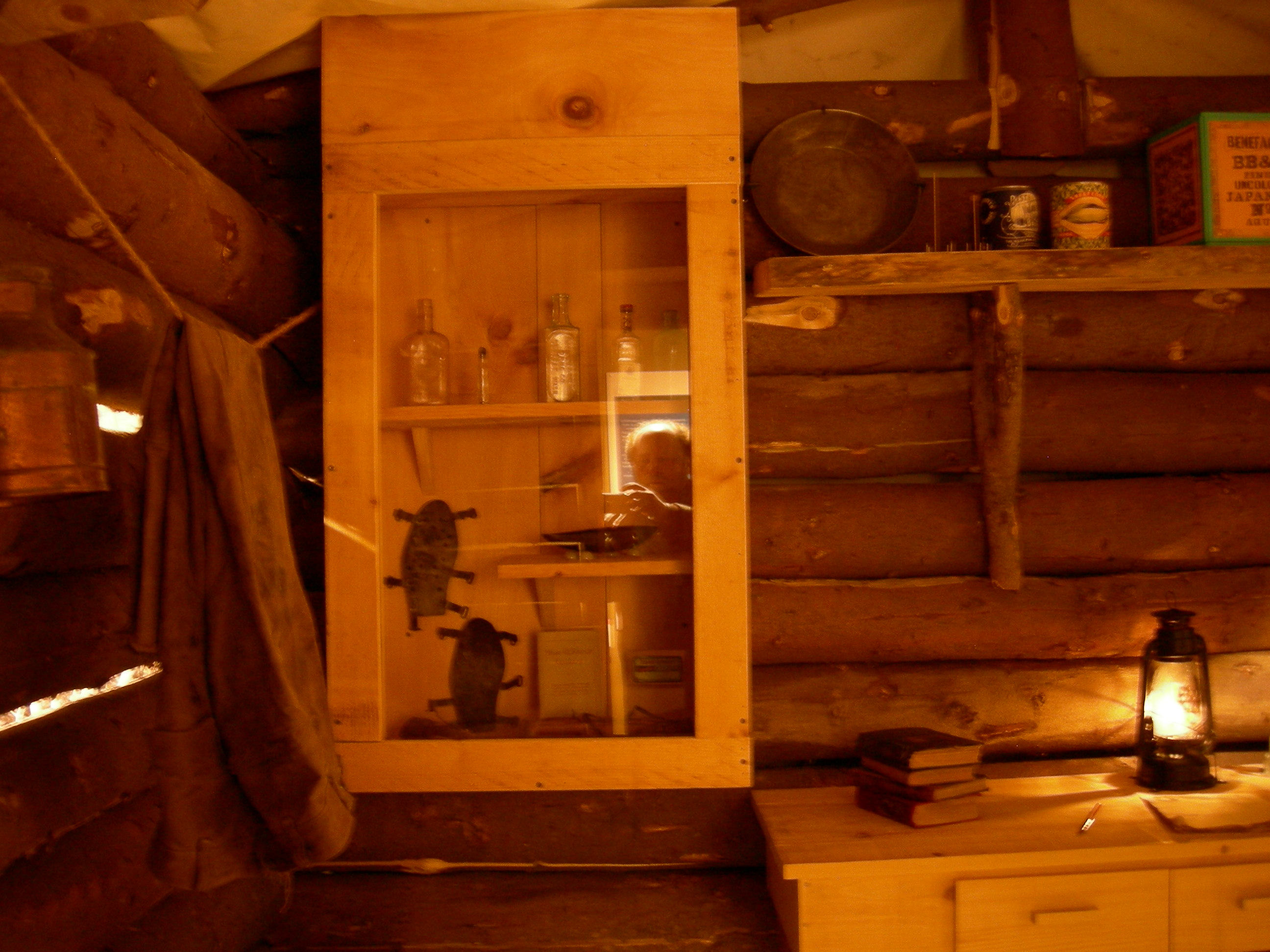 Display of part of a prospector's cabin, in the museum that constitutes the Seattle unit of the Klondike Gold Rush National Historical Park.